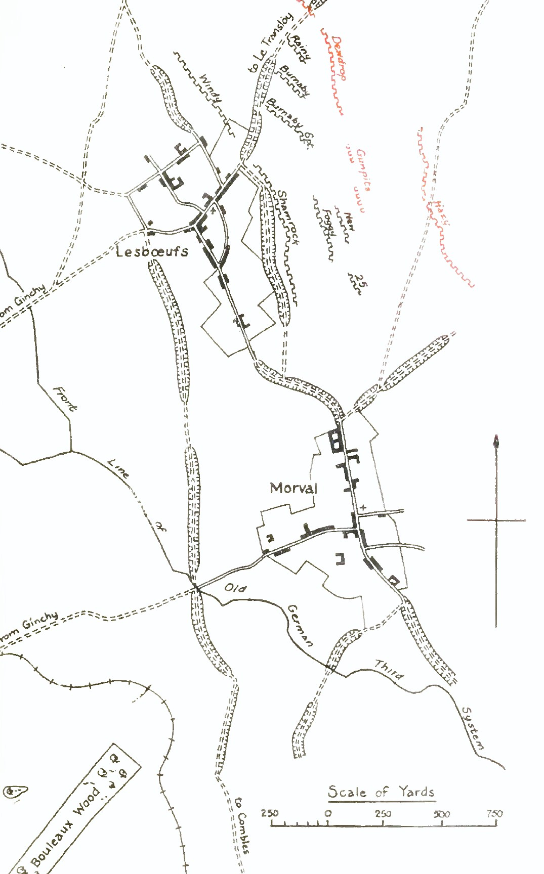 Diagram of 56th Division operations in the Battle of Le Transloy, 1-18 October 1916